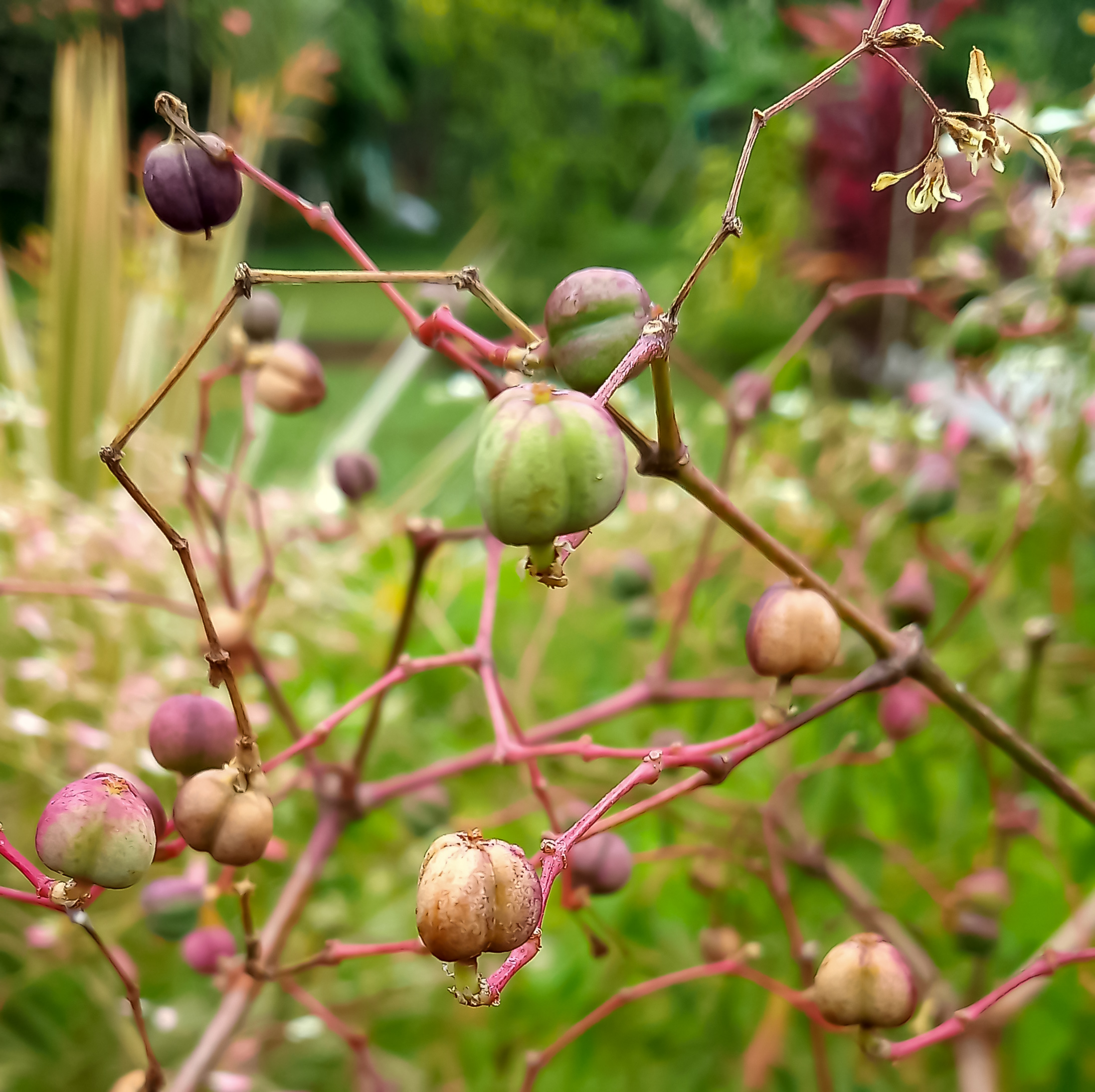 Christmas flower